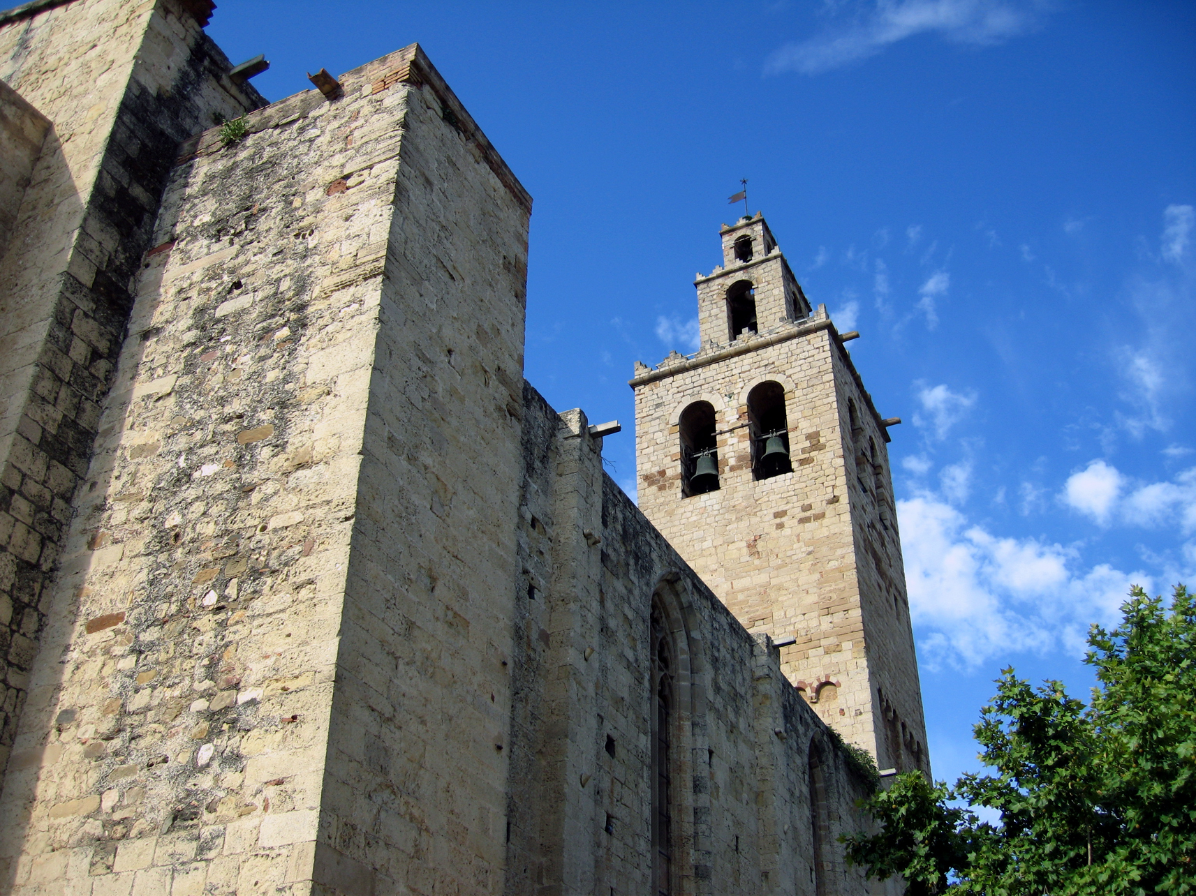 Monastery “Monestir de Sant Cugat” in Sant Cugat del Vallès (Catalonia).